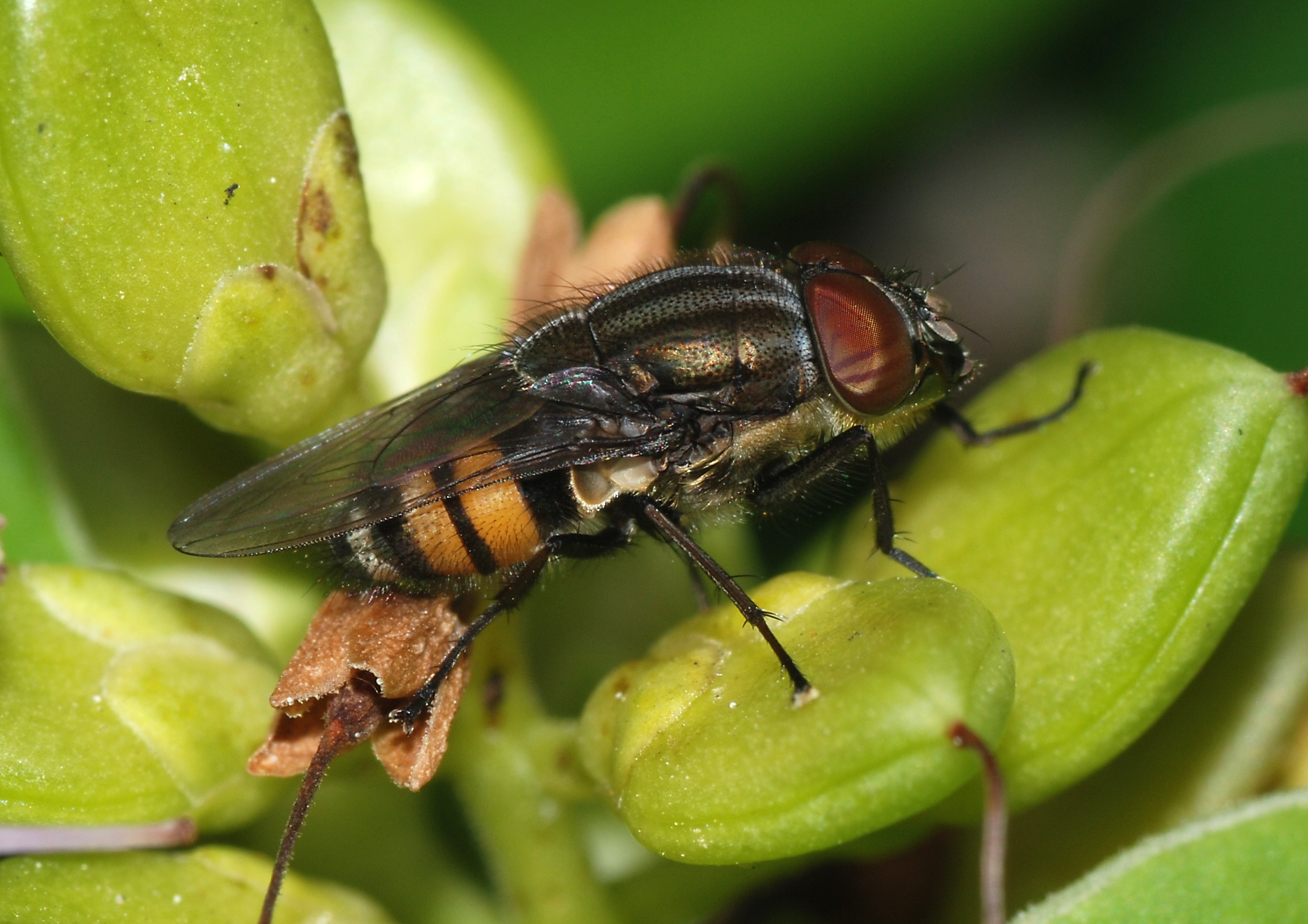 A male Stomorhina lunata, of the Calliphoridae family.